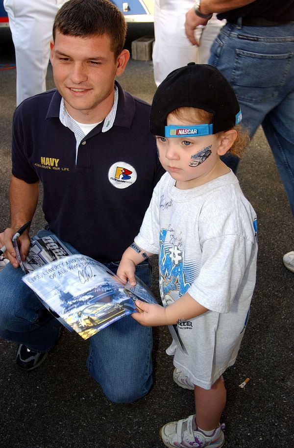 040925-N-4729H-518 Dover, De. (Sept. 25, 2004) – NASCAR driver Casey Atwood signs a picture for a young race fan at the Dover International Speedway in Delaware. Atwood drove the Navy 14 Chevy Monte Carlo to a 24th place finish at the Stacker 200 Busch series race. Before the race, Atwood talked to Sailors at the Navy recruiting booth, signed autographs for fans and watched a re-enlistment ceremony. U.S. Navy photo by Chief Journalist Monica Hallman (RELEASED)